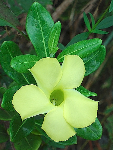 Wild Allamanda (Pentalinon luteum -- Family: Apocynaceae) Fakahatchee Strand State Preserve State Park, Collier Co., Florida 10/22/2006